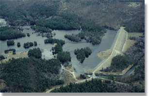 Aerial view of the West Hill Dam Flood Control Project and recreation area, US Army Corps of Engineers at Uxbridge in south central Massachusetts